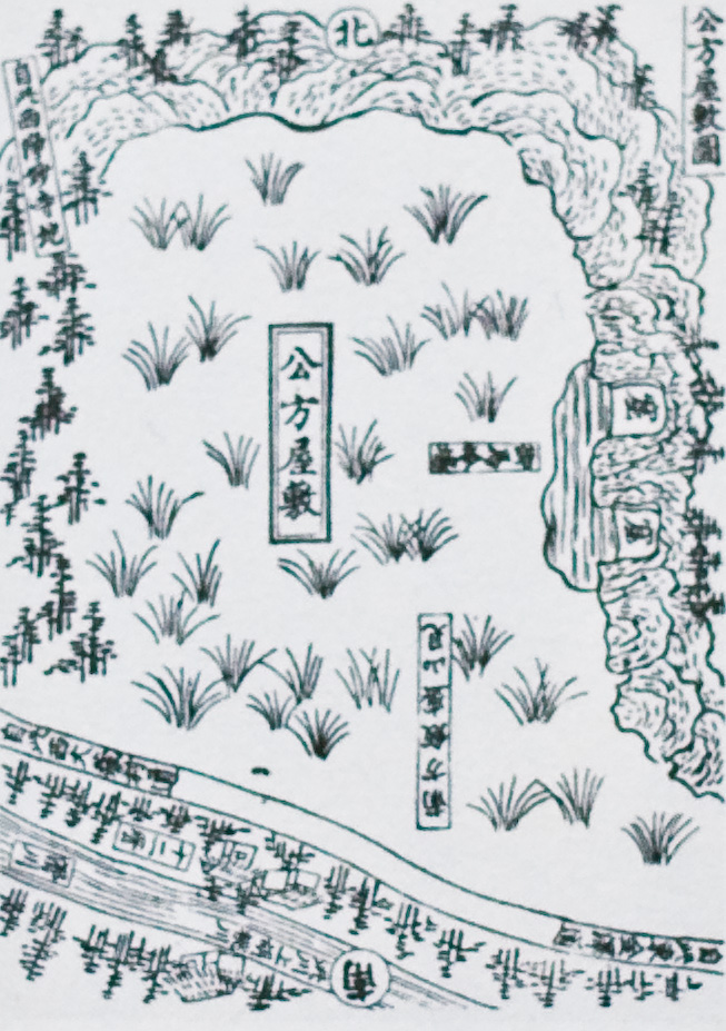 An illustration from the Shinpen Kamakurashi, an Edo era guide book, which shows the space left empty by farmers in the hope the Kanto Kubo would one day come back.